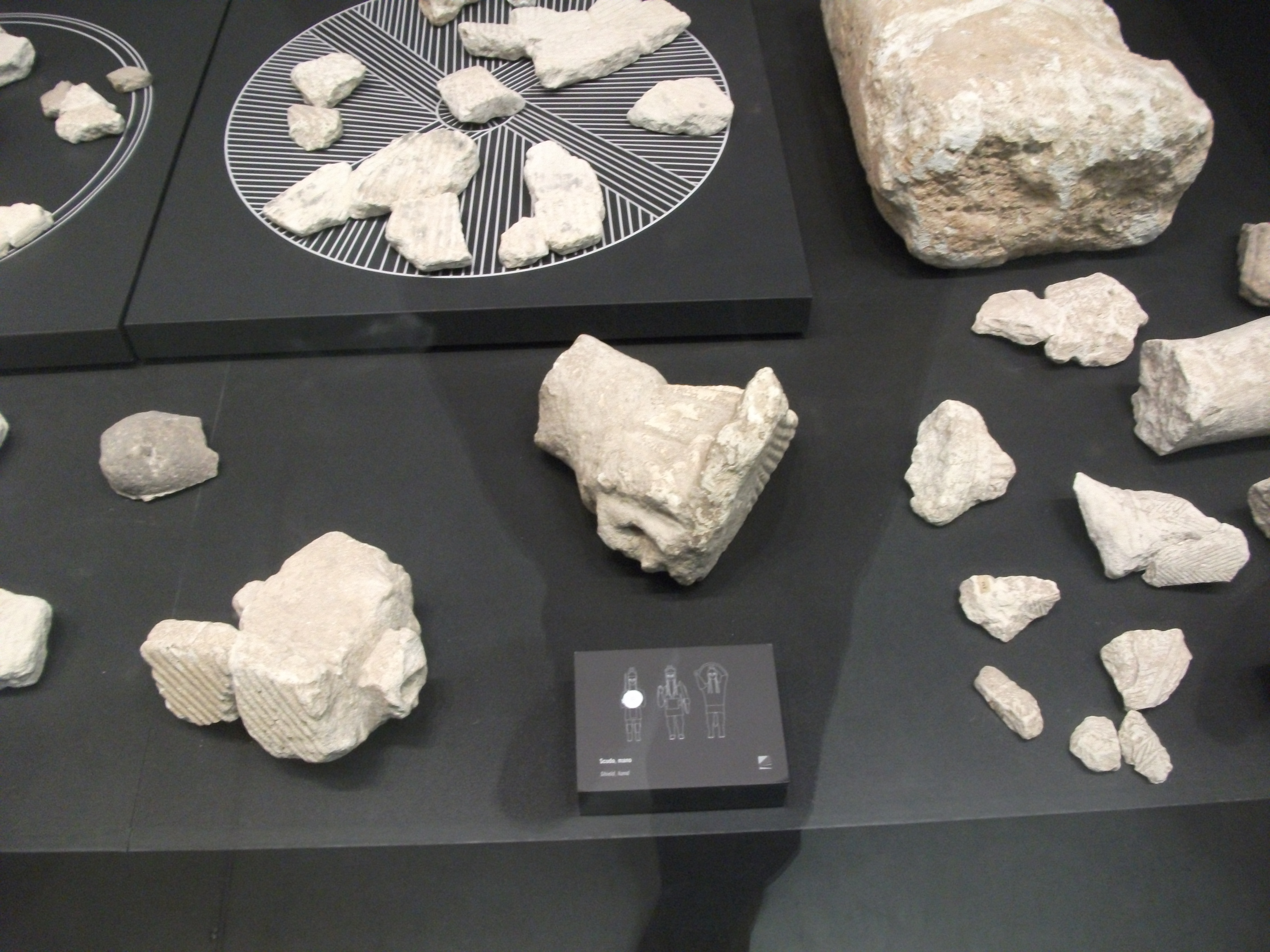 Sculpture, Giants of Monte Prama, boxer, Sardinia, Italy, Nuragic civilization,archaeology, bronze age, sea peoples, prehistory